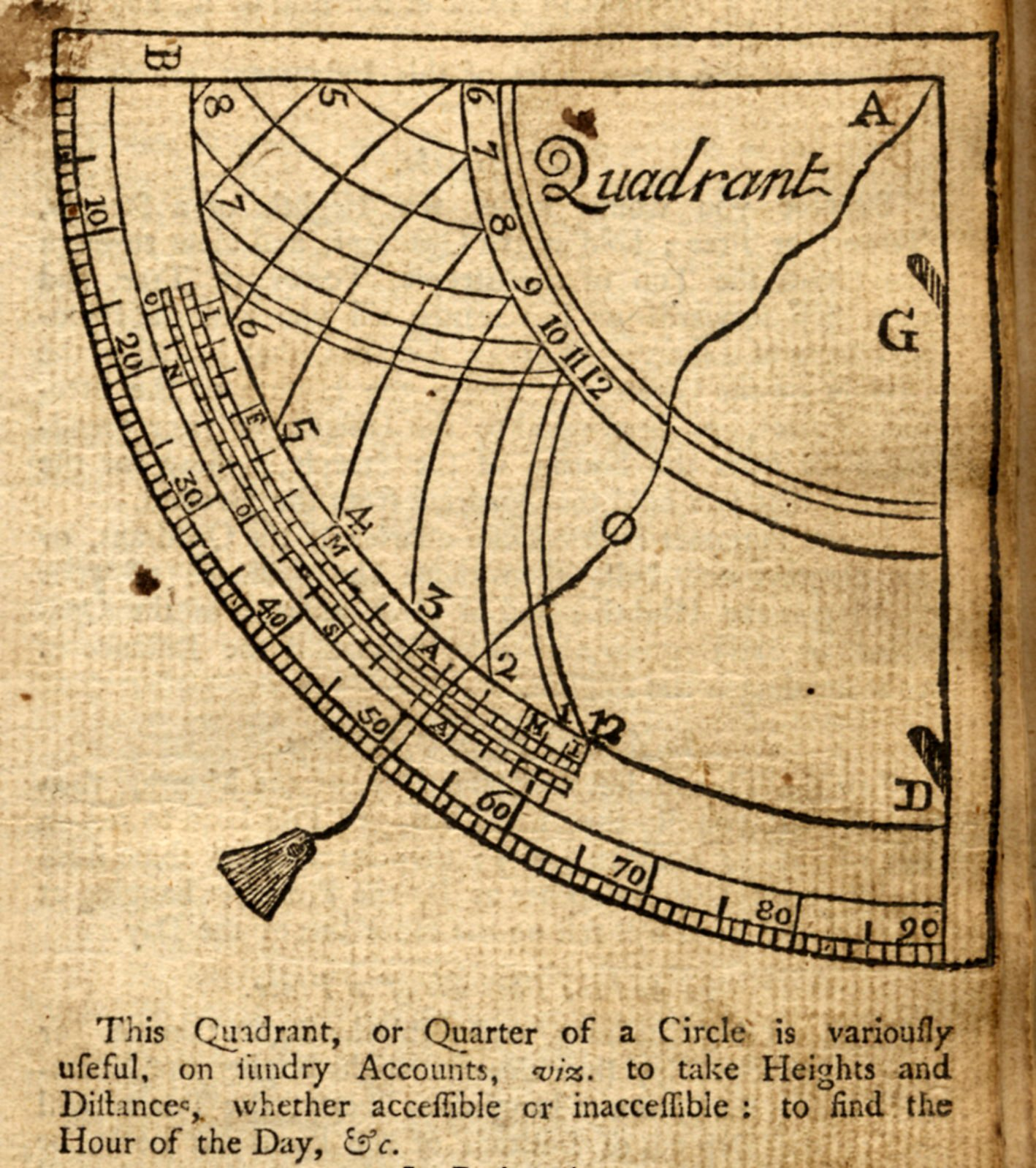 Horary quadrant - print of drawing